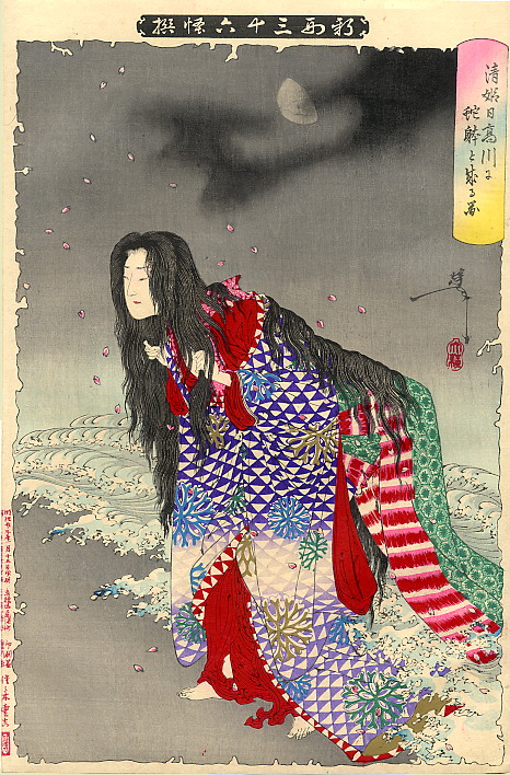 Kiyohime, January 1890. From the Thirty-six Ghosts series. 9.25" x 14.25". The print depicts Kiyohime transforming into a serpent on the banks of the Hidaka River so that she may pursue her lover, the monk Anchin.